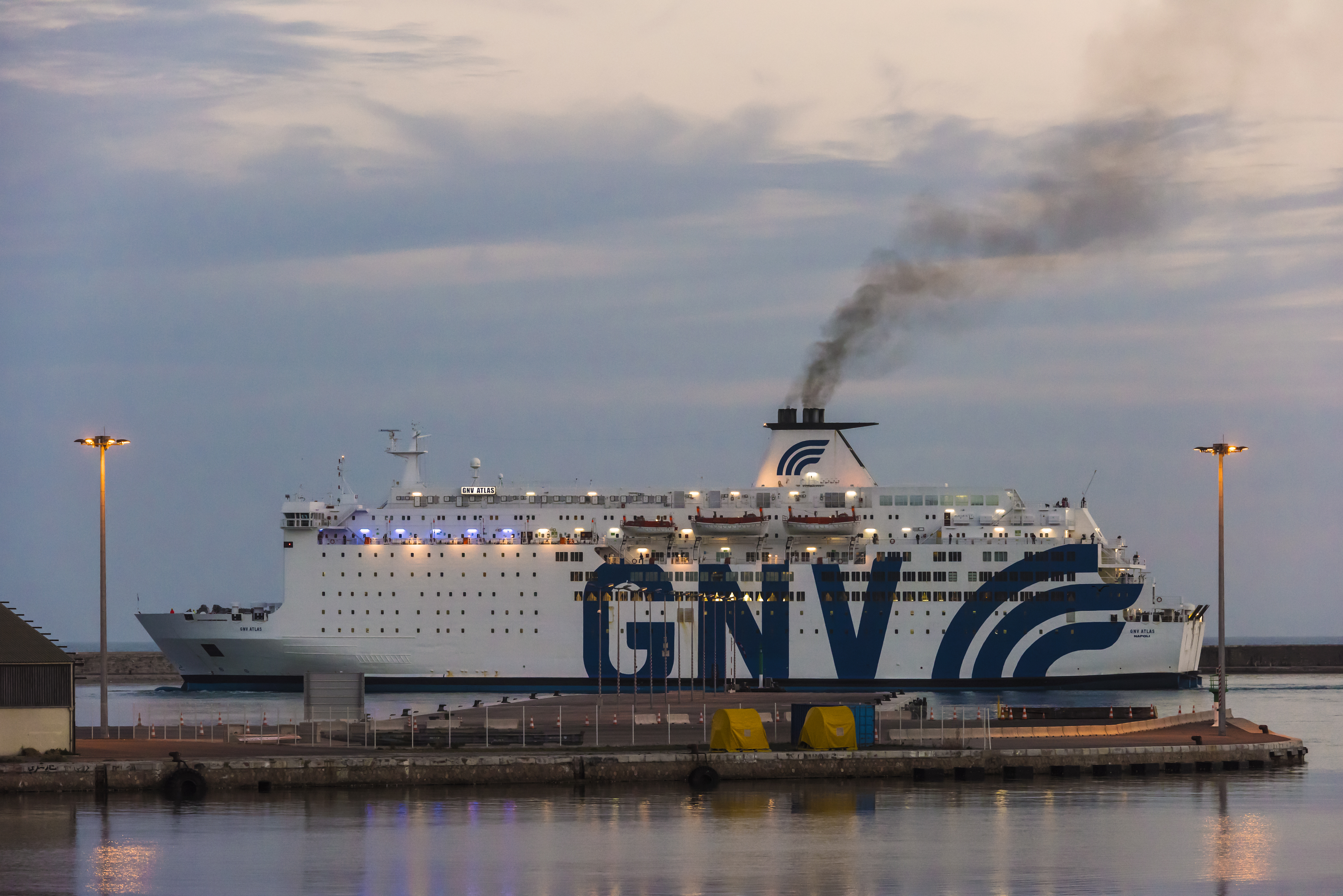 GNV ATLAS (ship, 1990) leaving the harbour of Sète, Hérault, France